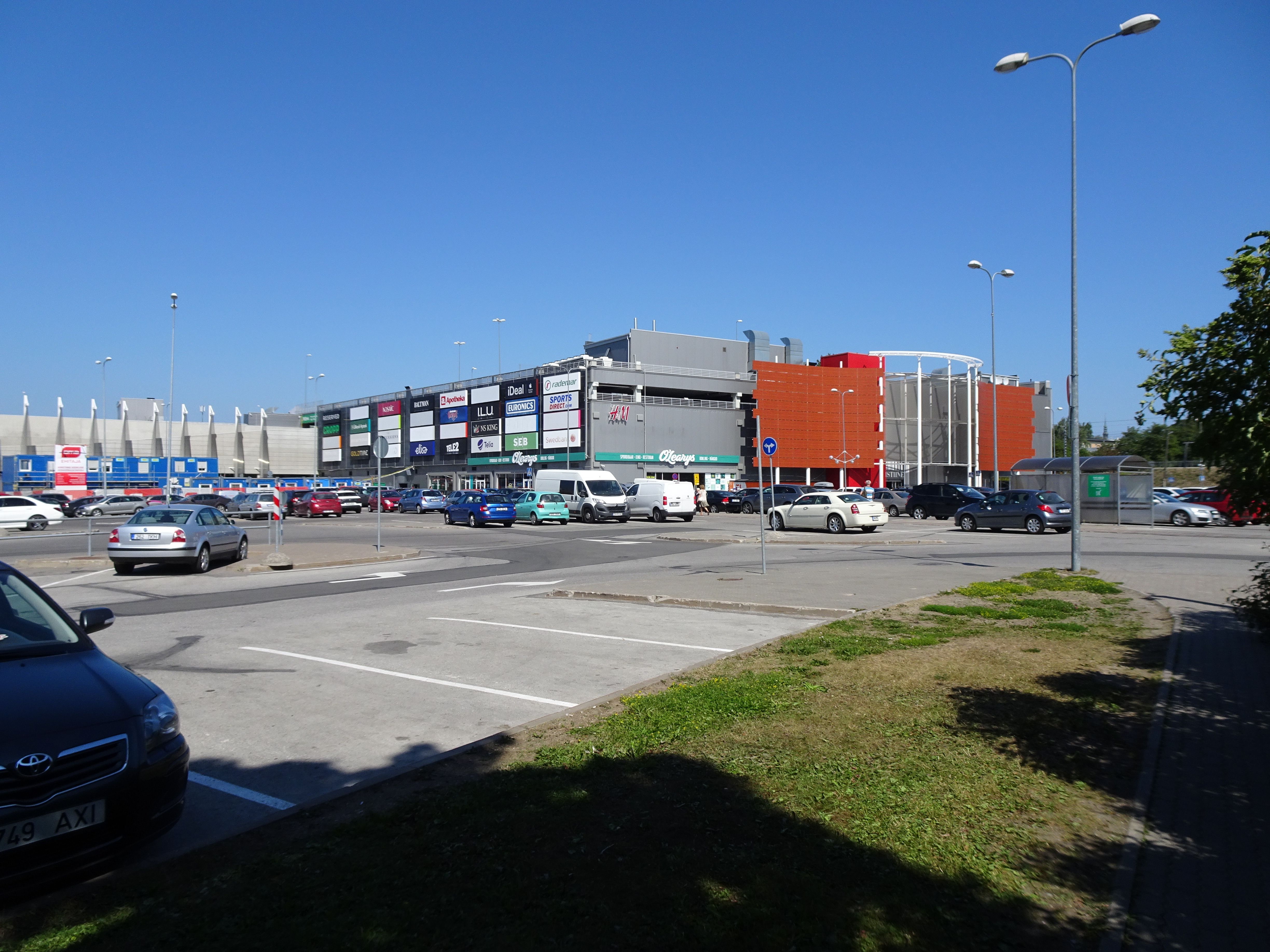 Kristiine Centre (Kristiine keskus) in Tallinn, Estonia